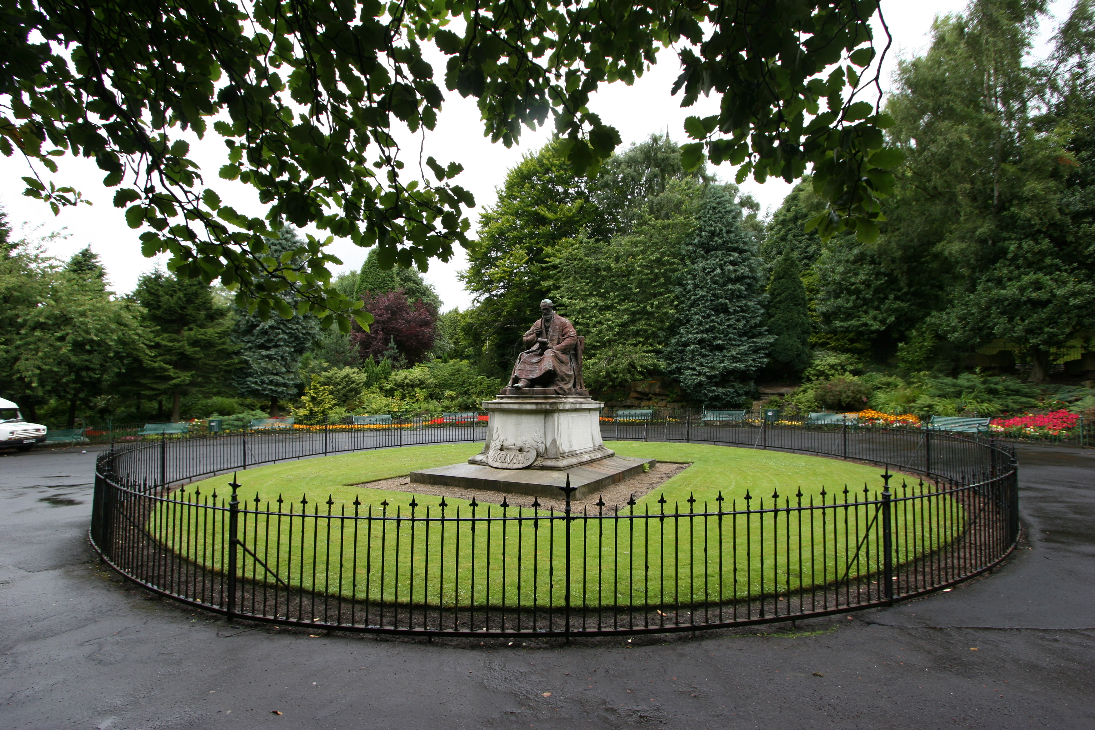 The memorial of William Thomson, 1st Baron Kelvin, University of Glasgow